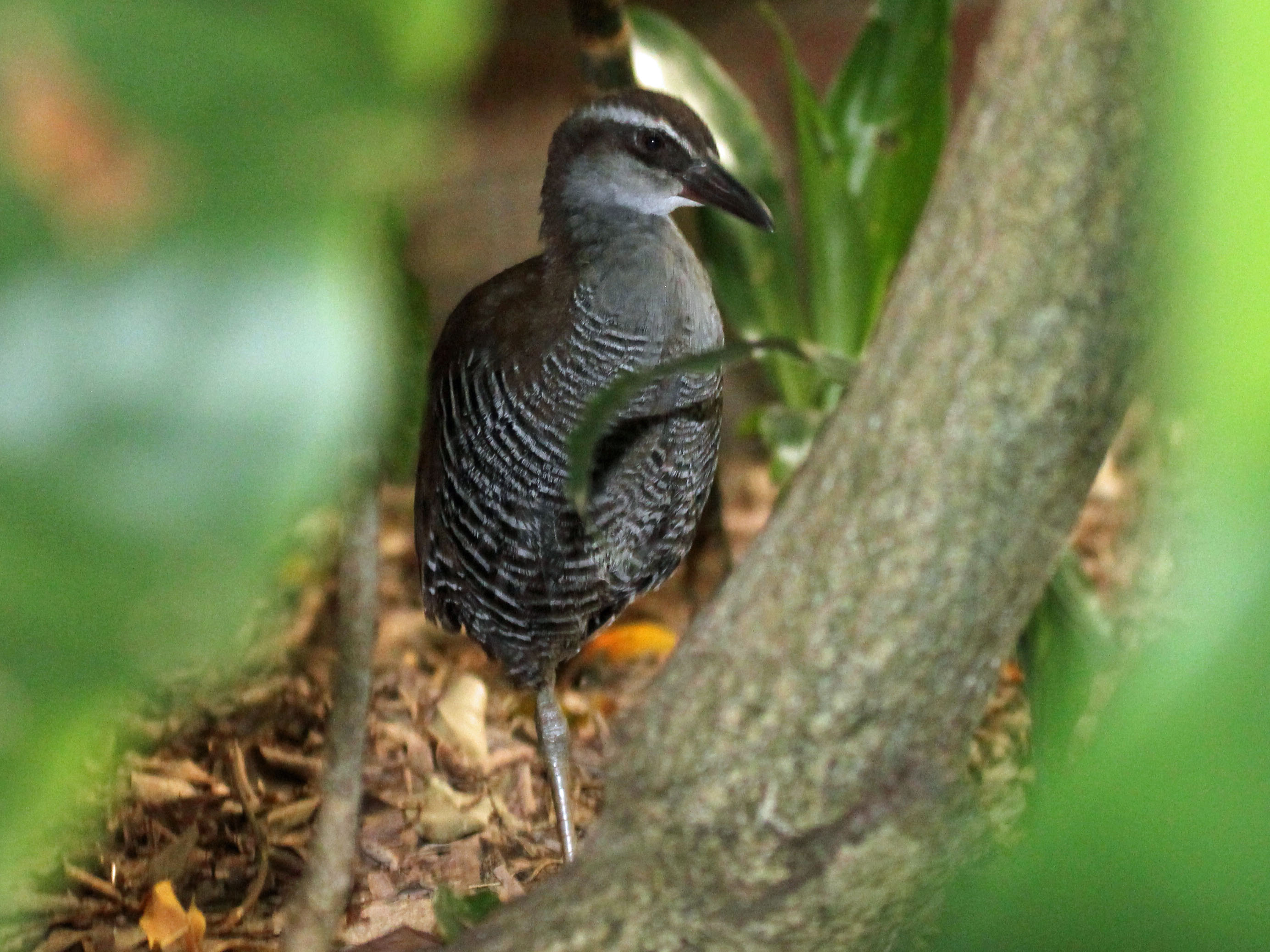 Guam Rail (Gallirallus owstoni) - National Aviary in Pittsburgh, Pennsylvania.